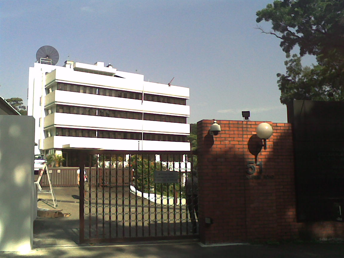 Russian Embassy in Singapore (51 Nassim Street)